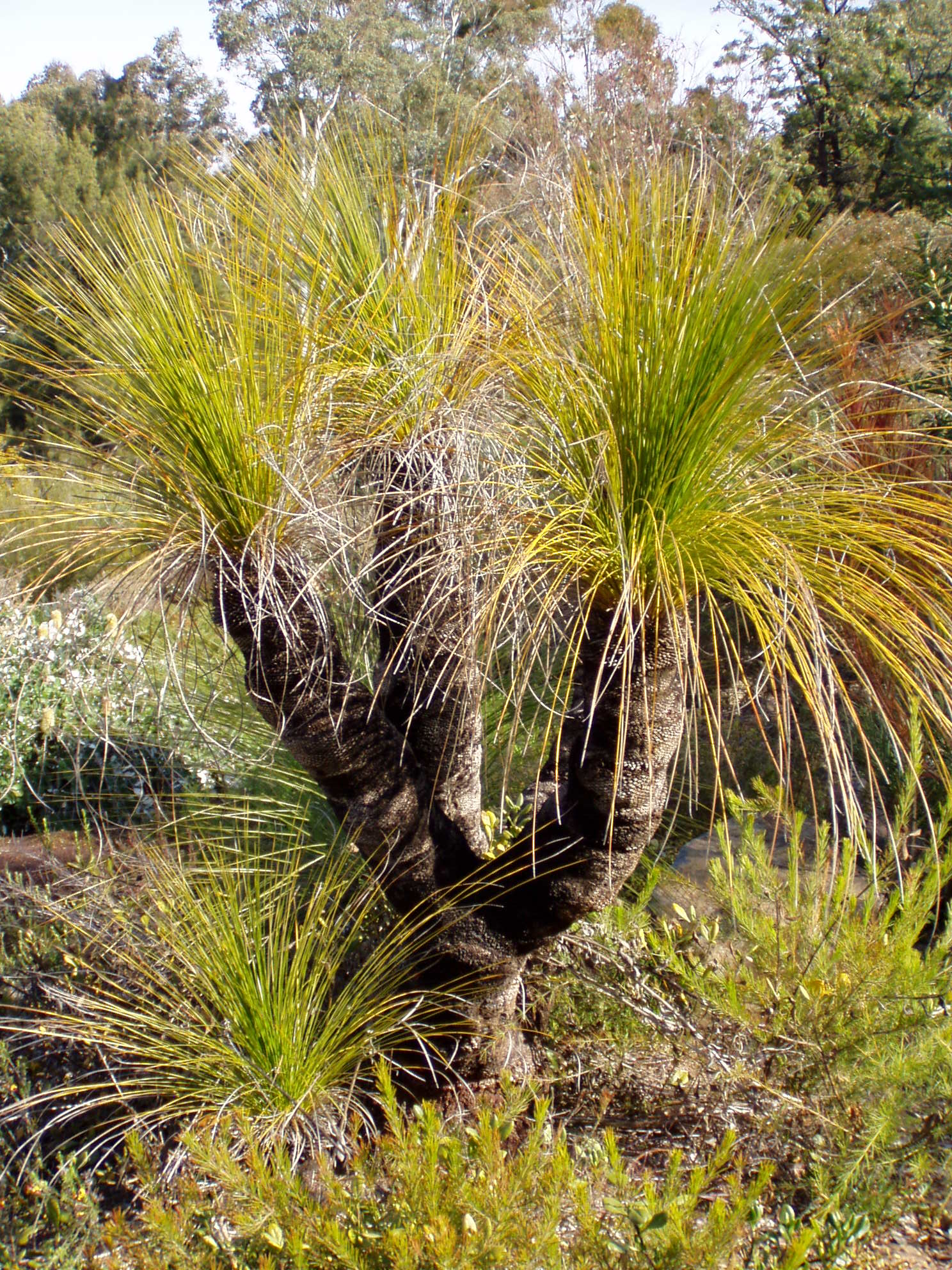 Description: Northern grasstree (Xanthorrhoea johnsonii) Location: Australian National Botanic Gardens, Canberra, Australian Capital Territory, Australia Date: 2005-09-21 Source: picture taken by Danielle Langlois Licence: Released under GFDL and Creative Commons licenses by the photographer